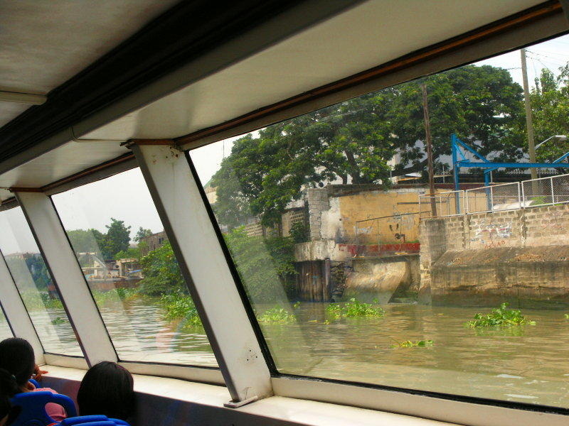 Riding a Pasig River Ferry, 2008